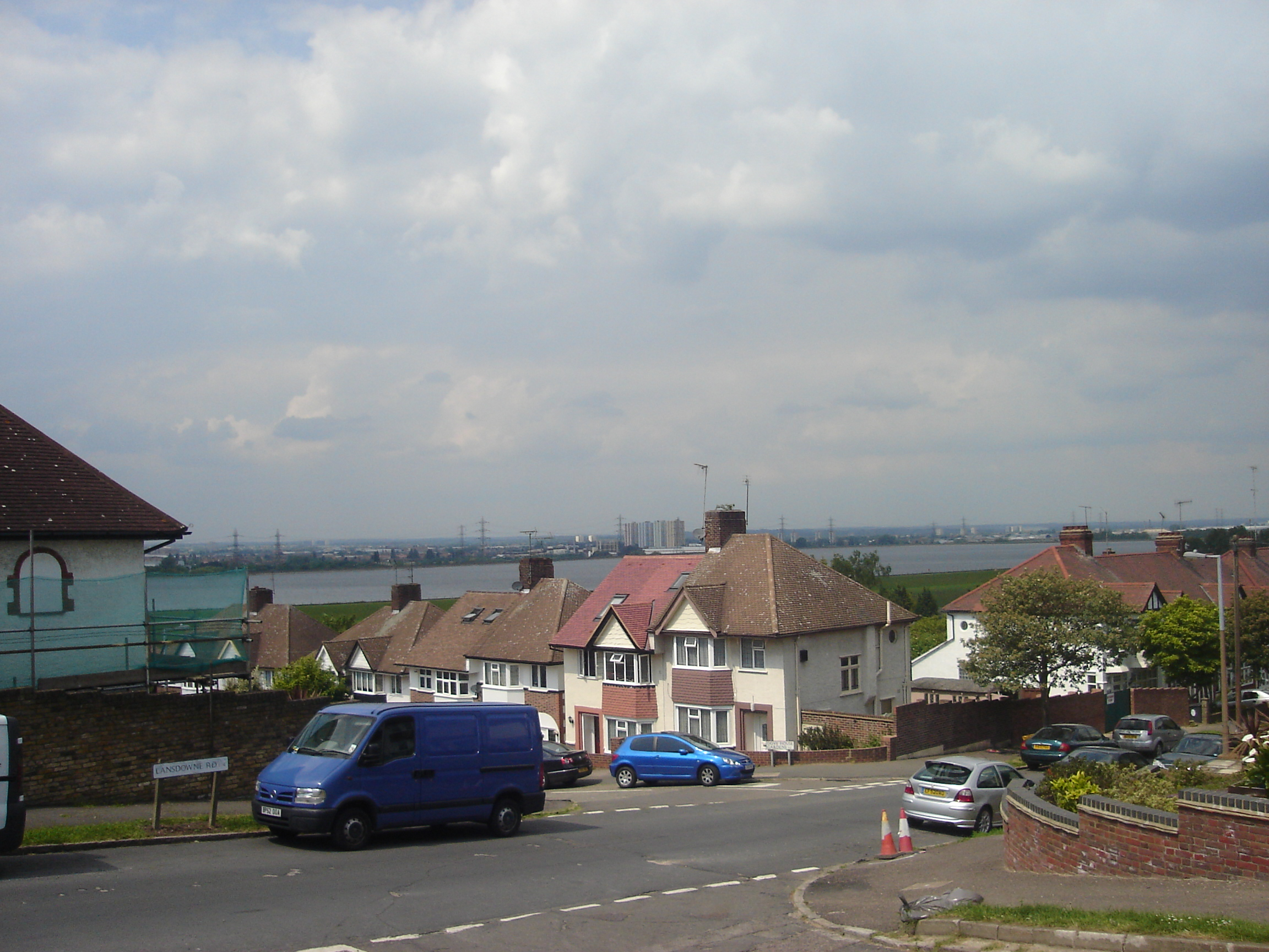 Picture of William Girling Reservoir